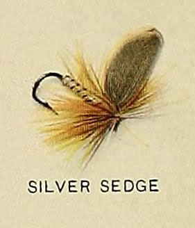 Extracted SILVER SEDGE from PLATE OF 10 POPULAR DRY FLIES USE.D BY ANGLERS IN THE UNITED STATES AND WHICH ARE OBTAINABLE AT ALMOST ANY GOOD TACKLE STORE